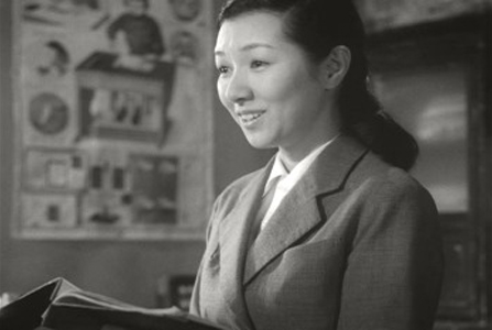 Hideko Takamine (1924–) in the motion picture Twenty-Four EyesTwenty-Four Eyes (1954)